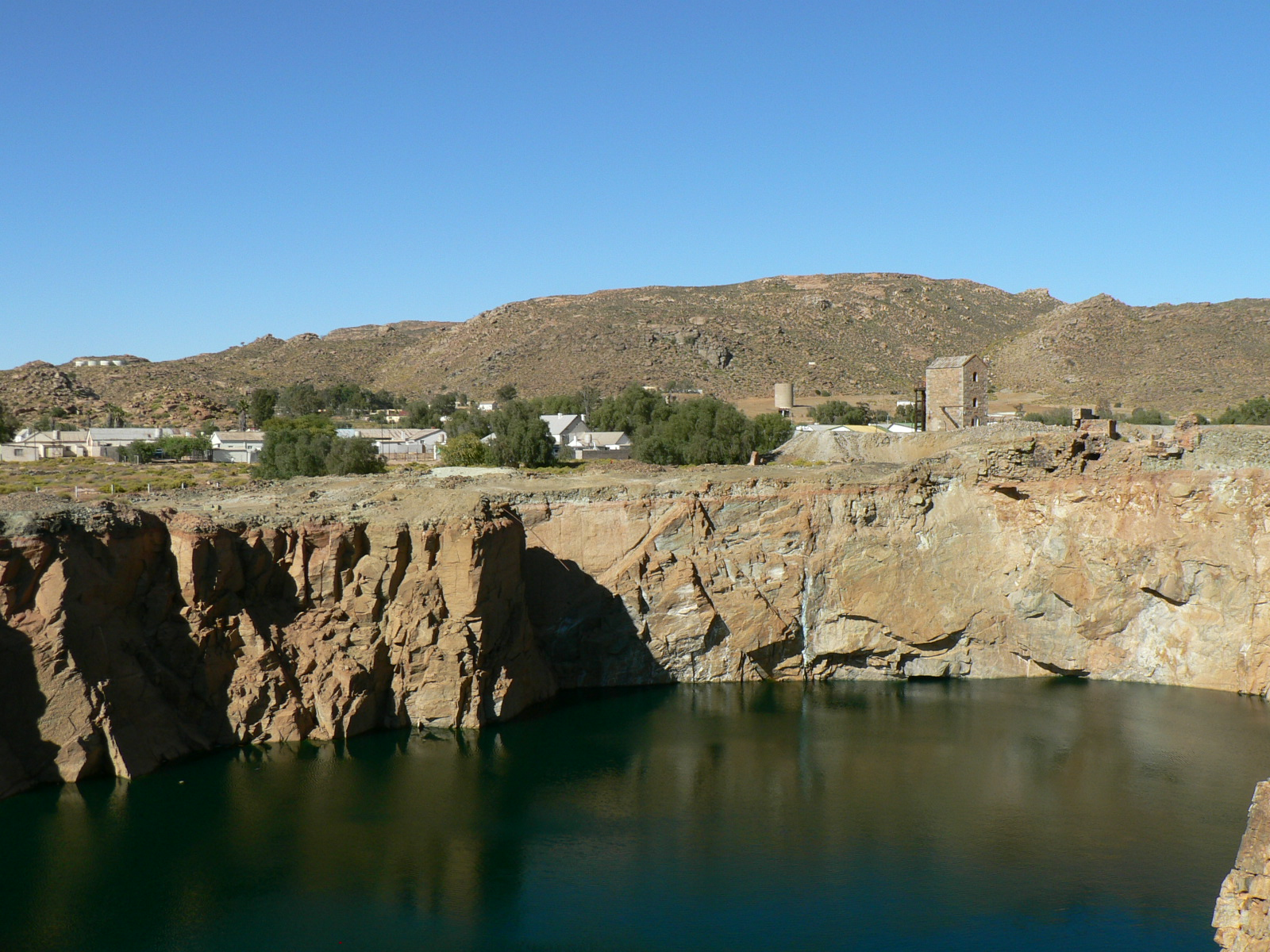 The pump is next to a spectacular water filled mine pit. This is part of an important copper mining industrial landscape that is on the tenative list of world heritage sites. This media shows a South African Protected Site with SAHRA file reference 9/2/066/0017.